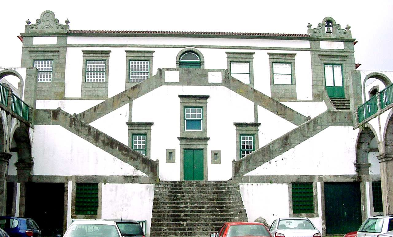 The main building of the Palácio de Santa Catarina, Pico da Urze, São Pedro, Angra do Heroísmo (Azores), Portugal